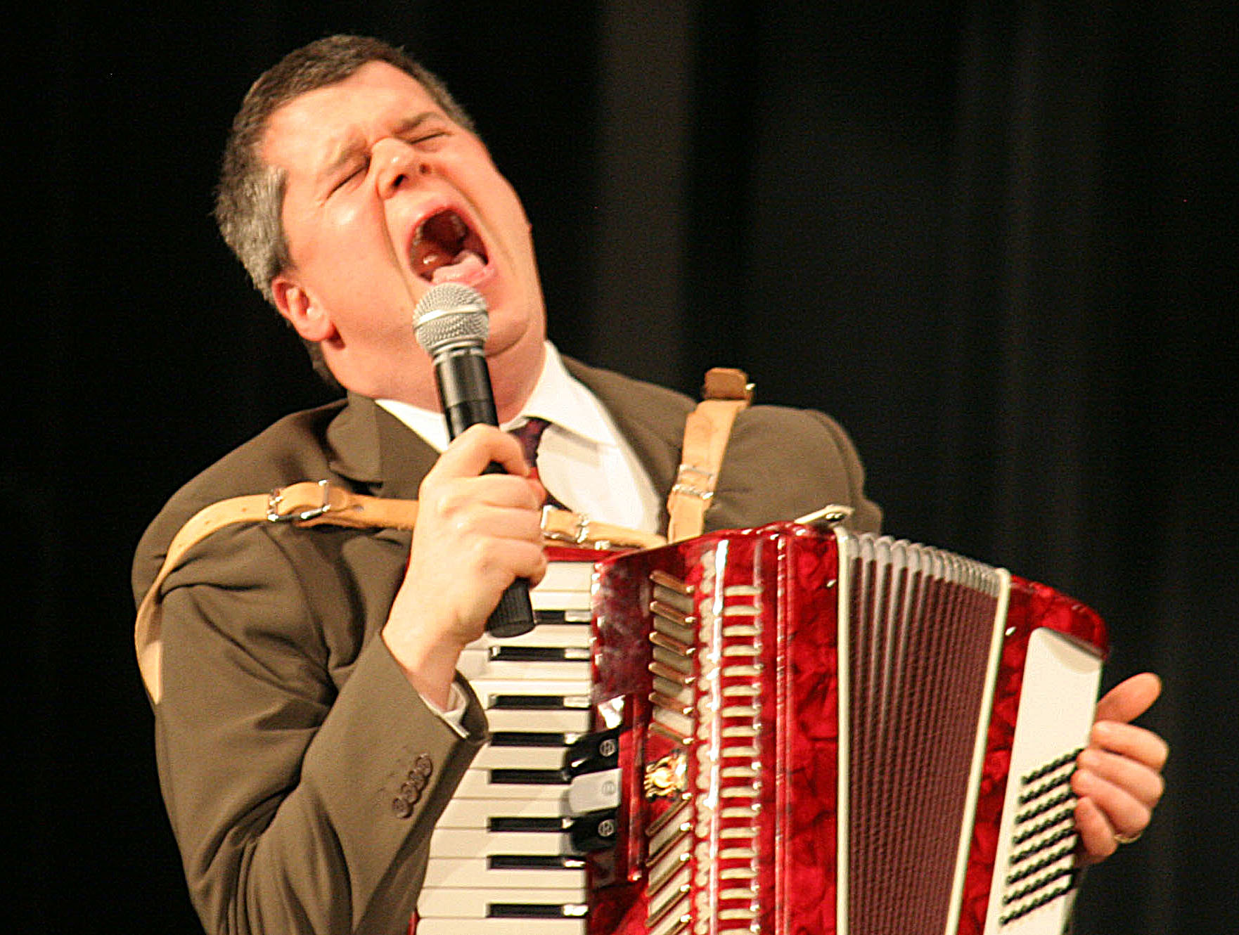 Daniel Handler singing and accompanying The Gothic Archies on accordion, at a reading of The End. The event, titled For Crying Out Loud, was held at Capuchino High School, San Bruno, California, USA.